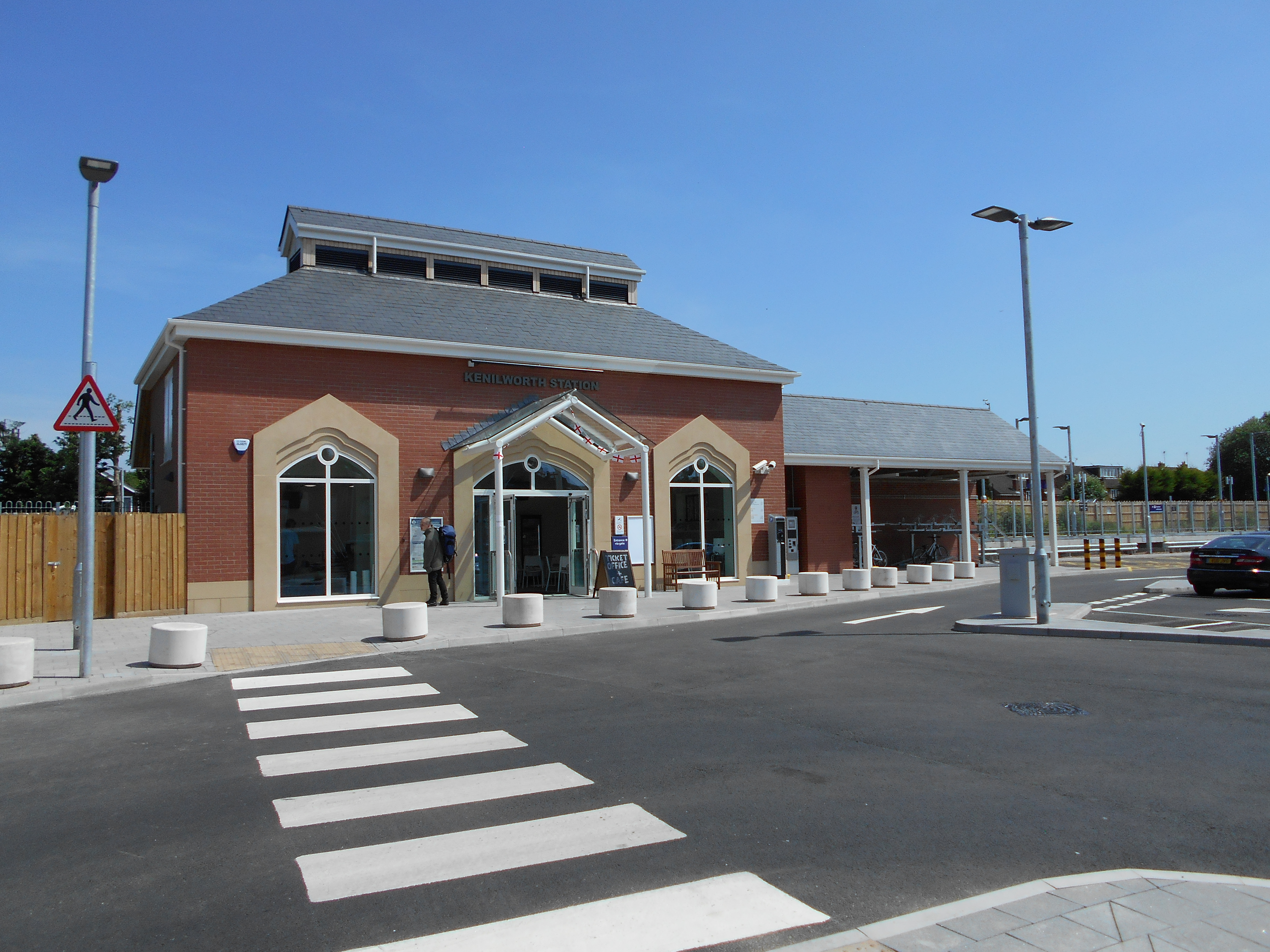 The exterior of Kenilworth station.